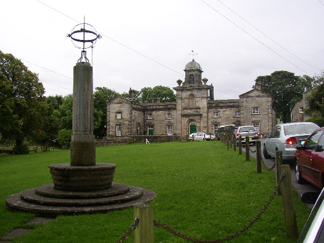 Fountaine Hospital and sundial, Linton-in-Craven, North Yorkshire: an almshouse designed by Sir John Vanbrugh, funded by a bequest from Richard Fountaine